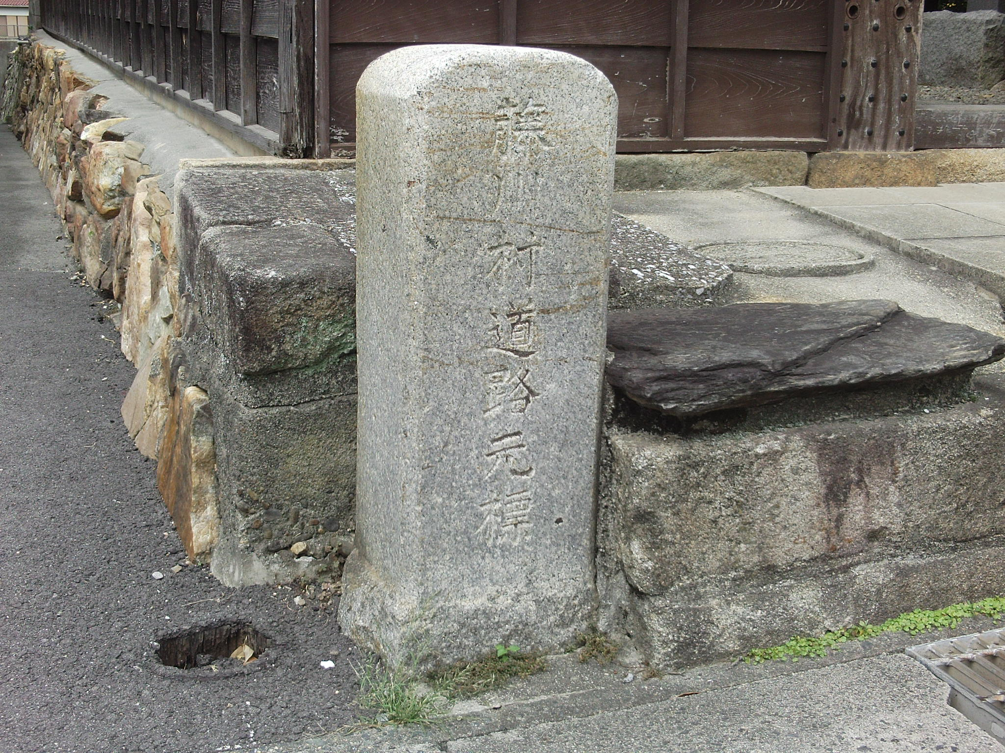 Kilometre zero of Fujikawa village. (Fujikawa village, Nukata-gun, Aichi.)